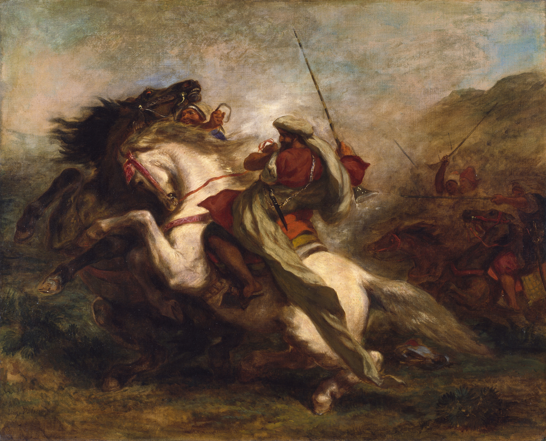 Delacroix described the spectacular and violent military pageantry at the court of Sultan Abd-er-Rahmen of Morocco (1778-1859), which he witnessed while accompanying Count Charles de Mornay on a diplomatic expedition on behalf of King Louis Philippe of France in 1832: "During their military exercises, which consist of riding their horses at full-speed and stopping them suddenly after firing a shot, it often happens that the horses carry away their riders and fight each other when they collide."